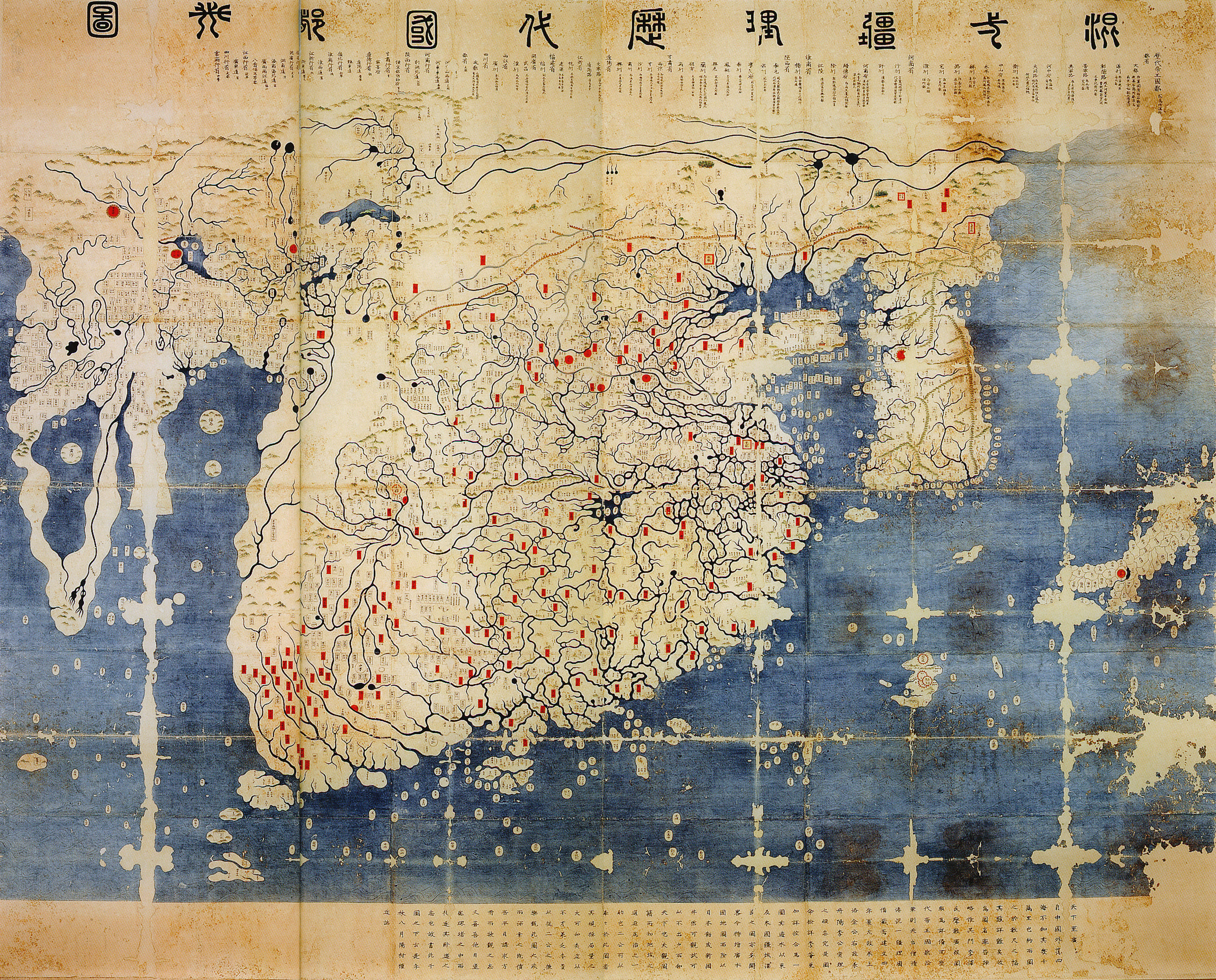 General map of the distances and the historic capitals (chinese: Hunyi jiangli lidai guodu zhi tu; japanese: Kon'itsu kyoori rekidai kokuto no zu), Korea, roughly 1402. Ink and paint on paper. Height 220 cm, width 289 cm. Honkoo-ji Tokiwa Museum of Historical Materials, Shimabara, Nagasaki prefecture. Based on two Chinese maps from the 14th century, Shengjiao guangbei tu (Big map that shows the pronounciation of place names) and Hunyi jiangli tu (General map of the distances also showing historical capitals [of China]). Both maps were brought to Korea in 1368, and put together to one new map around 1402. The most obvious feature distinguishing this later version from the original Kangnido is the more correct size and orientation of Japan. The geographical knowledge represented in the map beyond China and Korea seems mainly a result of 14th century trade connections within the Mongol Empire. On the western edge of the map the names Marseille and Sevilla have been identified. Note the depiction of the Cape of Good Hope, the second-earliest known to date. Note: The "crack" on the left side of the image is due to the map being printed on two adjacent pages in the source, an exhibition catalogue. It is not from the original (just in case someone might wonder).